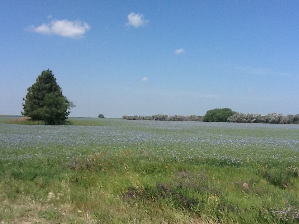 This is a flax field near Garrison, North Dakota.